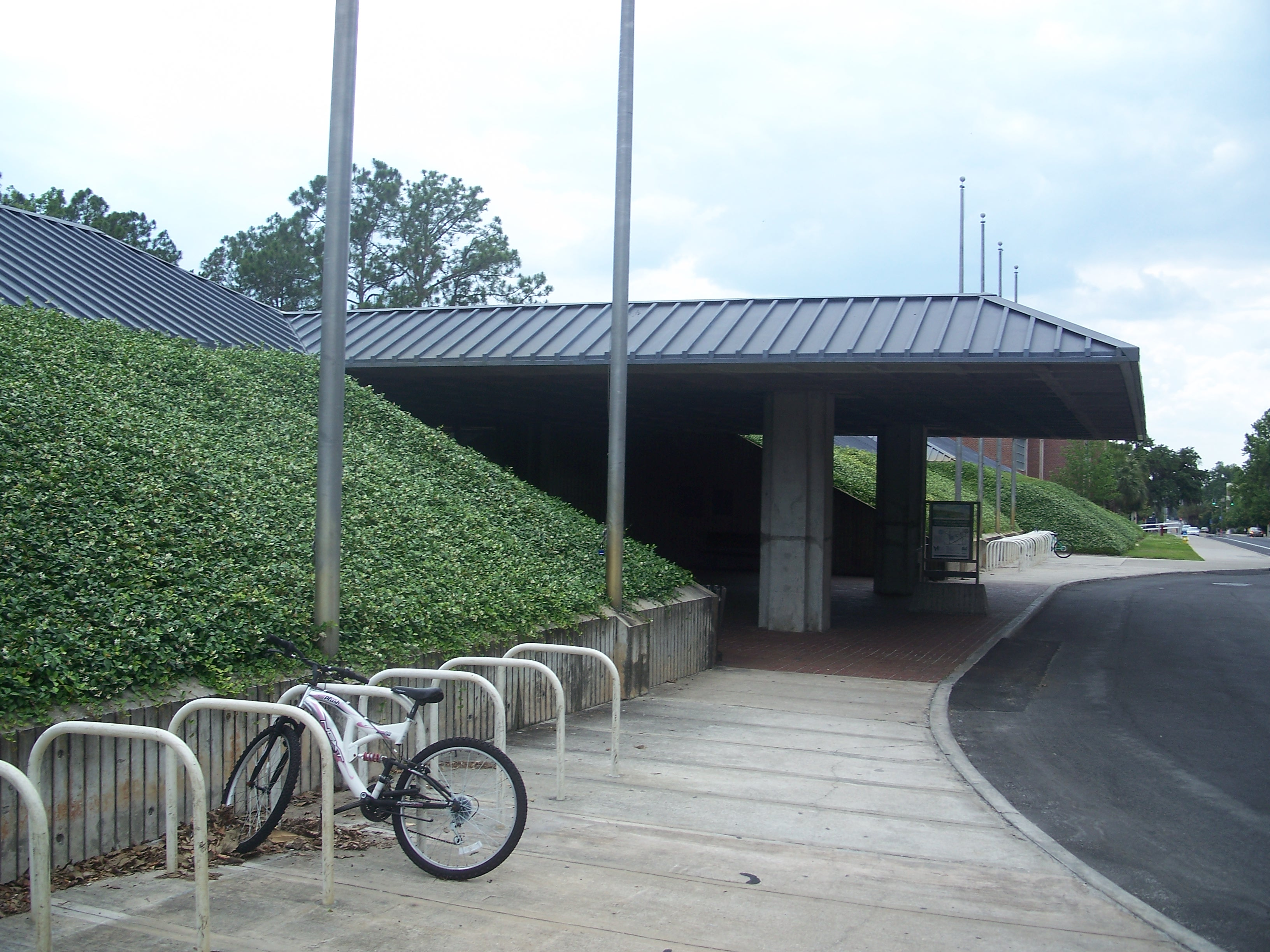 Gainesville, Florida: University of Florida: Dickinson Hall, houses the Collections and Research for the Florida Museum of Natural History